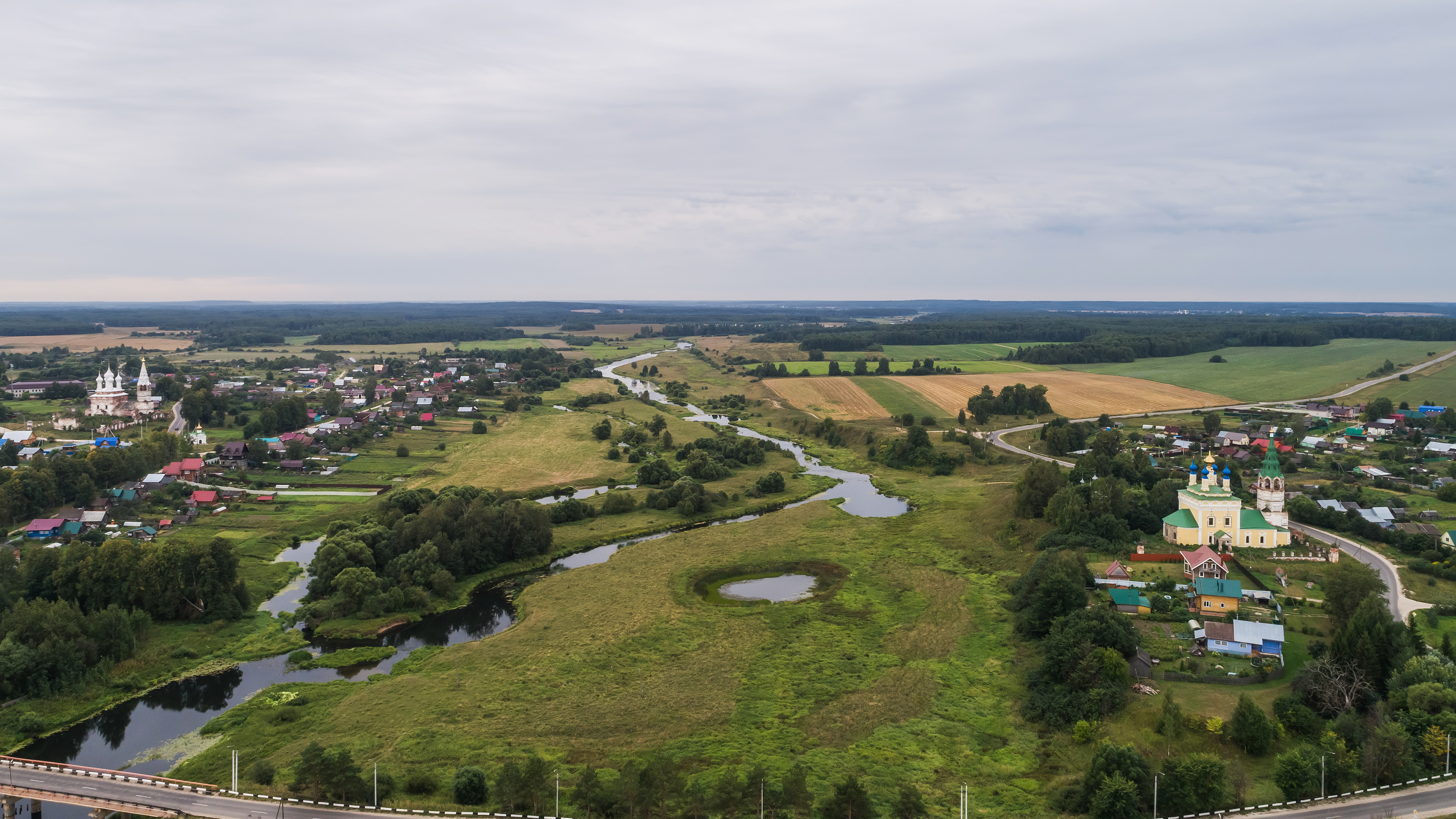 Aerial photo of Dunilovo and Goritsy, Ivanovo Oblast, Russia